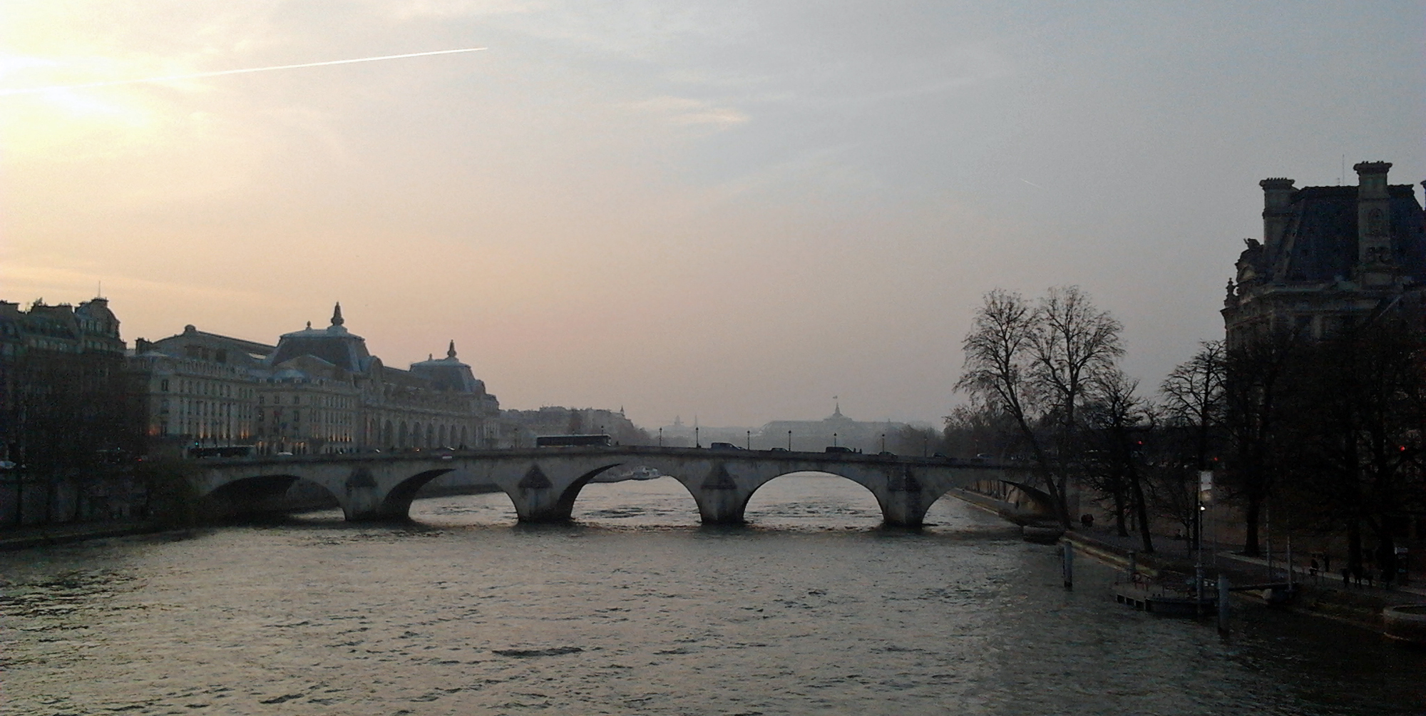 Air pollution in Paris in March 2014. Seine river.